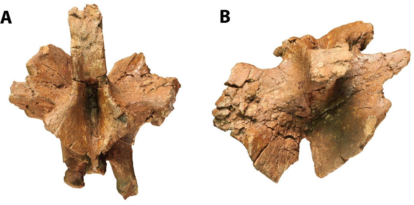 Additional images of holotype (BP/1/6882), a front dorsal vertebra. A, posterior view; B, dorsal view. Photographs by BWM.